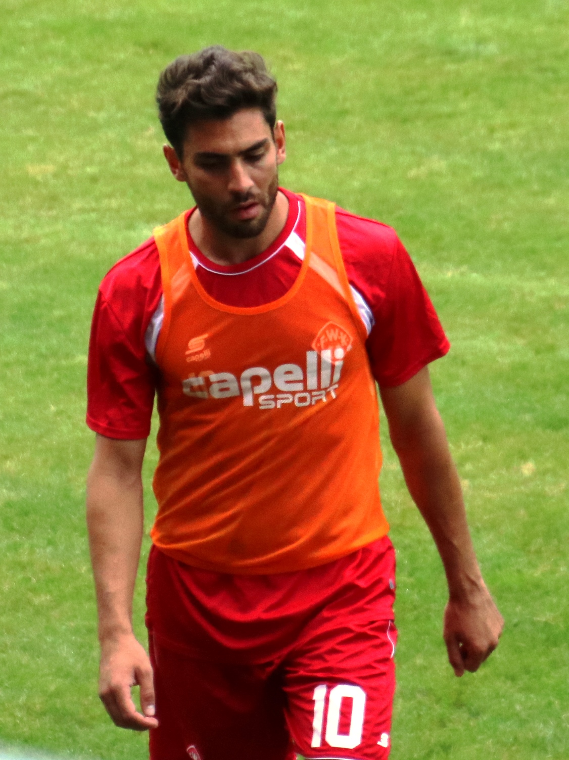 friendly match preseason